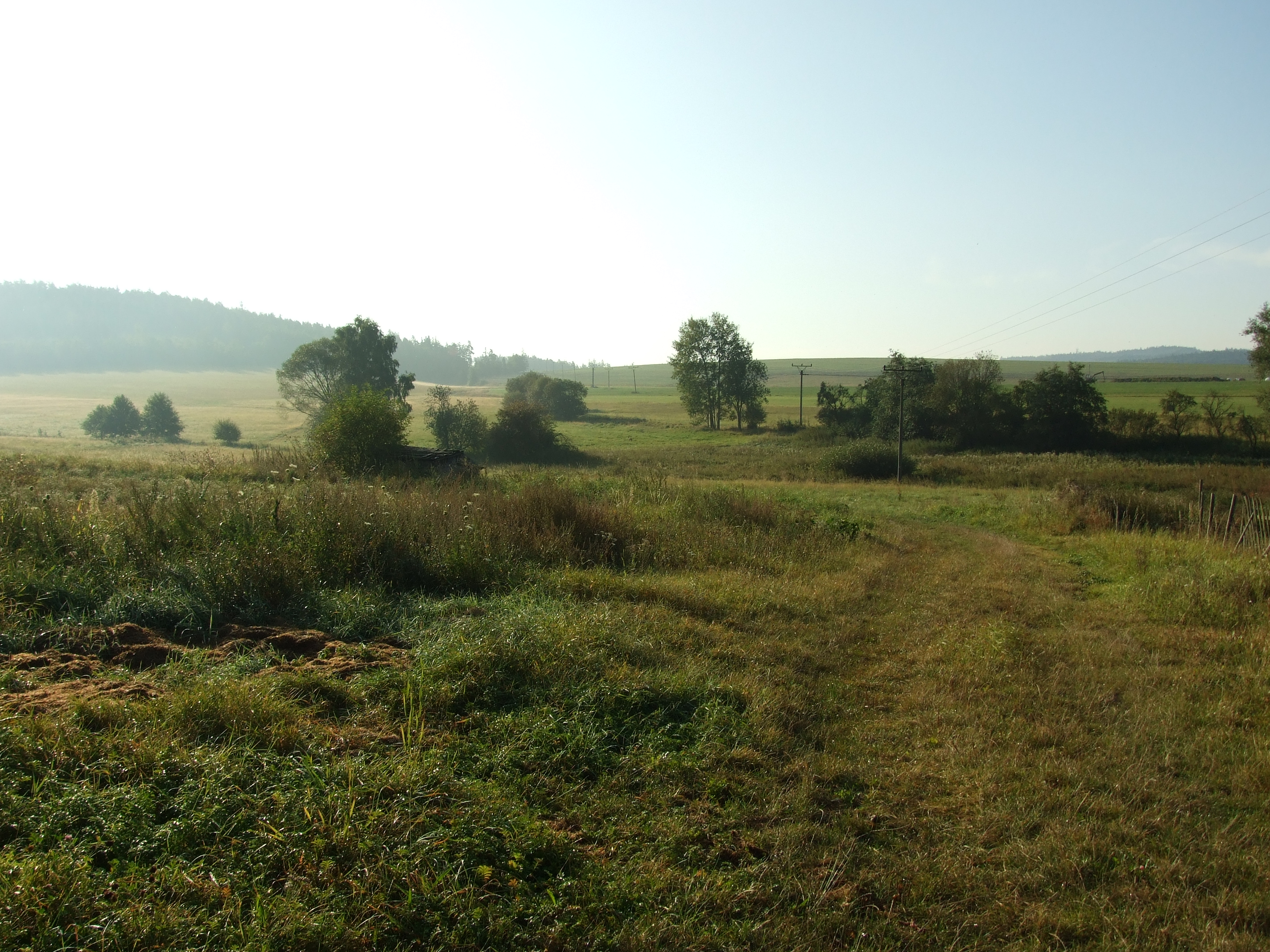 Nature near Vojníkov village, South Bohemian Region, CZhelp